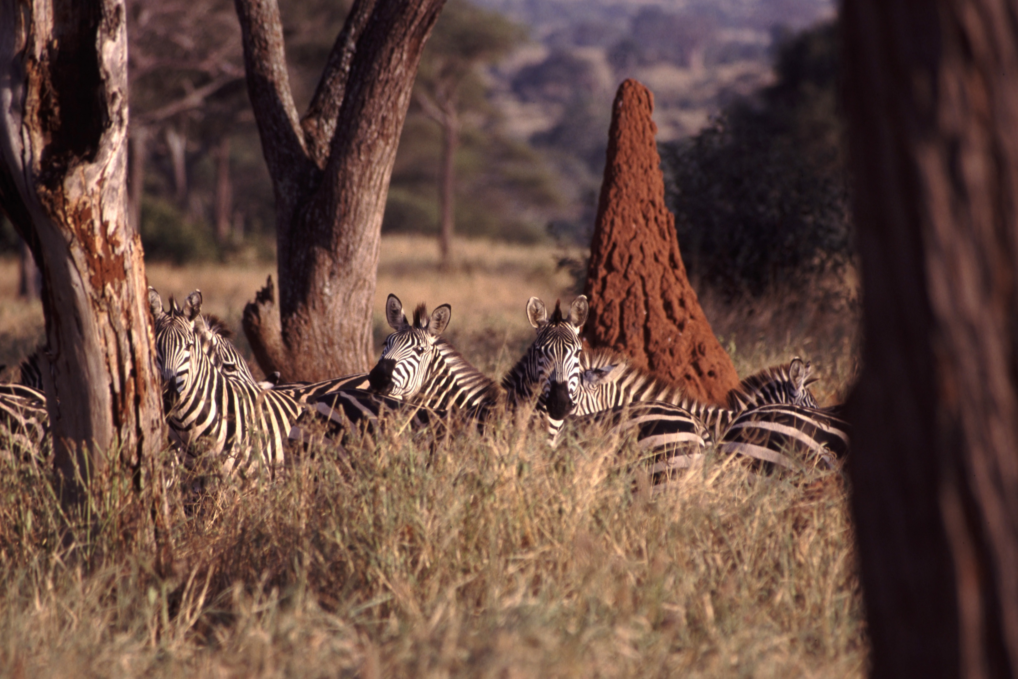 Zebras in the grass, with a termite mound behind them. Taken on safari in Tanzania.